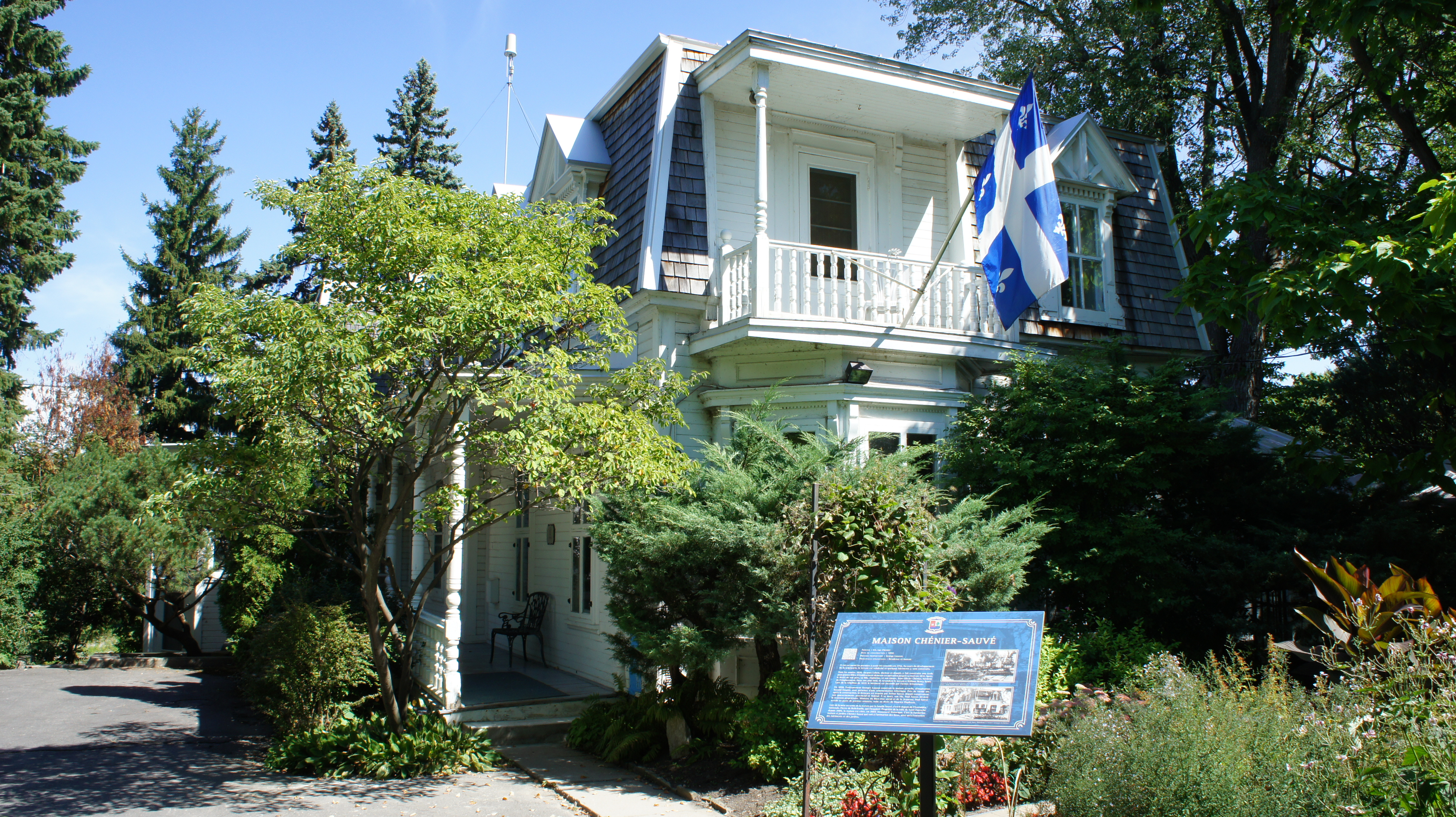 The Chénier-Sauvé house, built by 1890, is a representative example of the bourgeois residences built in the end of the XIXth century and is lived by several politicians in particular Arthur Sauvé ( 1874-1944 ), his son and Prime Minister of Quebec Paul Sauvé ( 1907-1960 ) as well as Pierre de Bellefeuille, deputy in the National Assembly from 1976 to 1985.